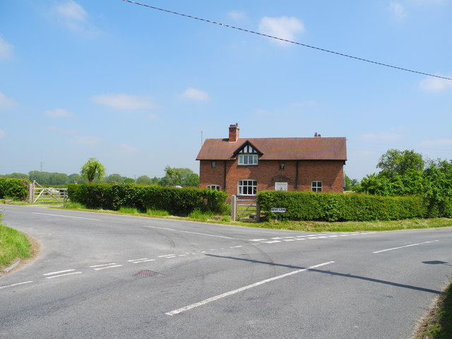 Ruloe House